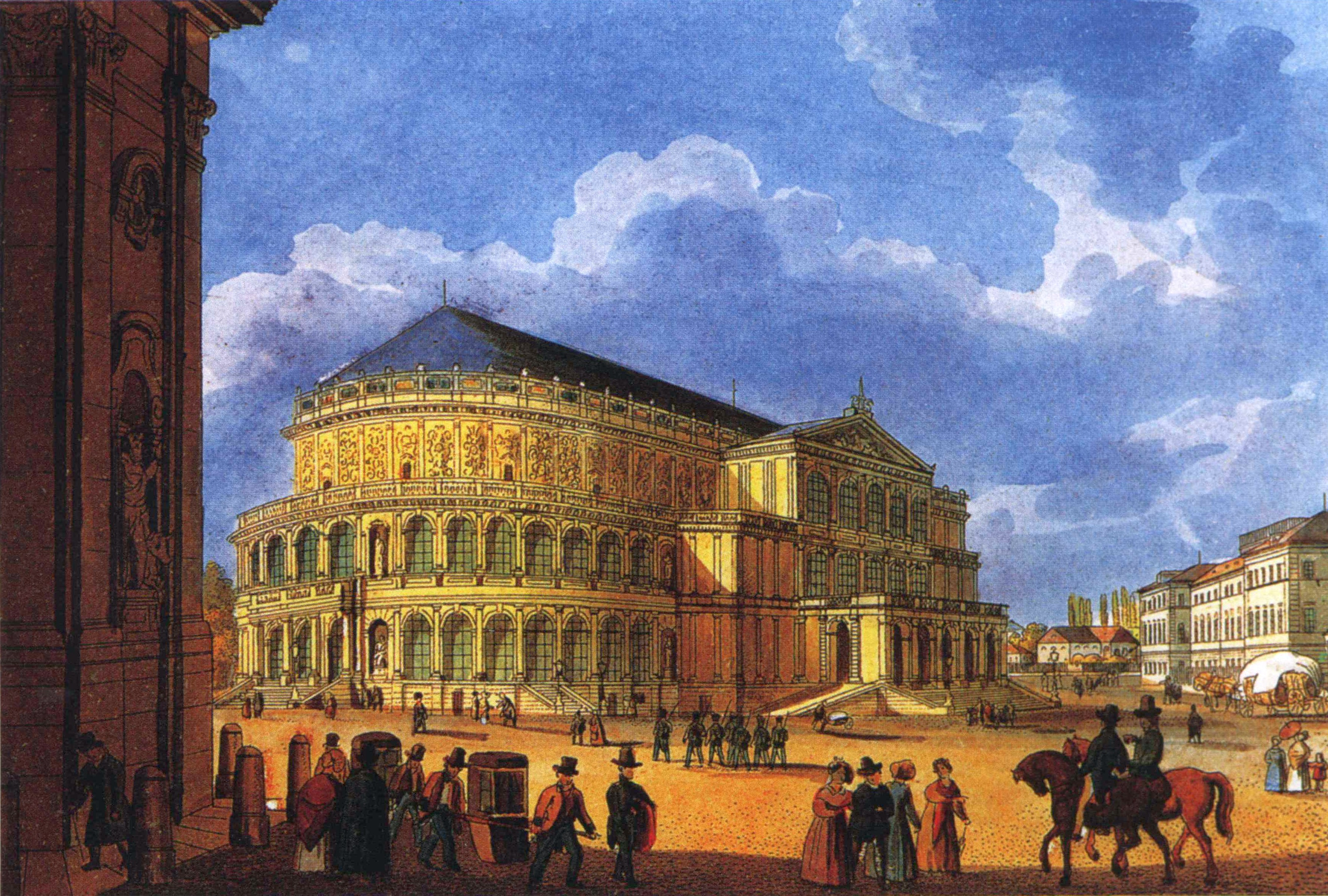 The first opera house of Semper in Dresden, around 1850